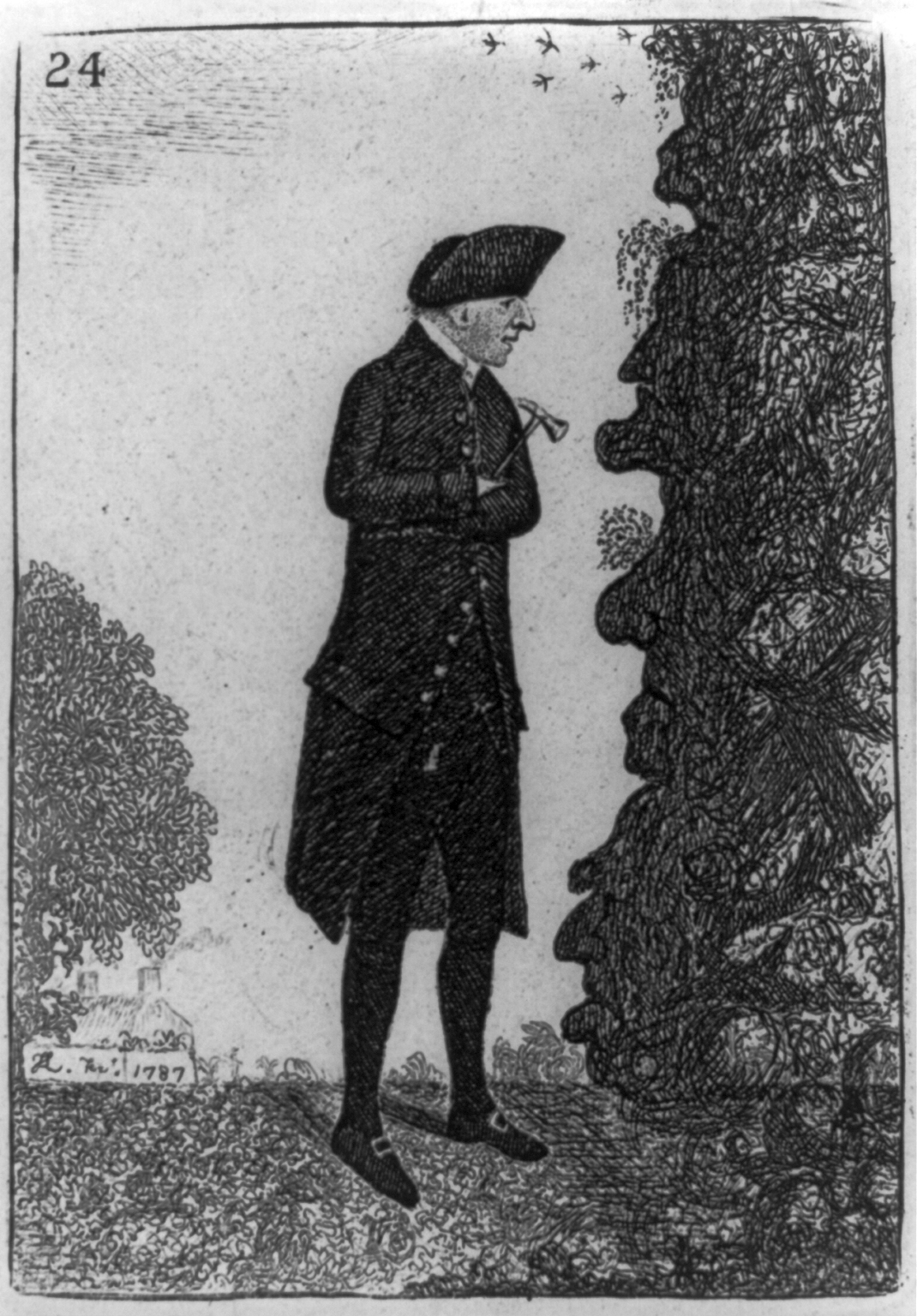 James Hutton (1726-97) in the field. Illustration in: Original Portraits and Caricature Etchings, 1877, v. 1, oppos. p. 55.